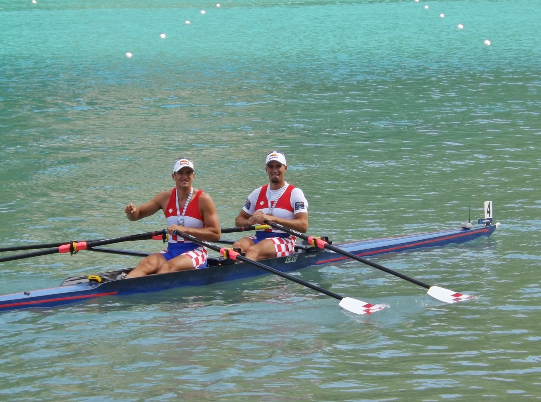 Sight of Croatian athletes Martin Sinković and Valent Sinković, who won a gold medal, during the 2015 World Rowing Championships taking place on the lac d'Aiguebelette lake, in Savoie, France.